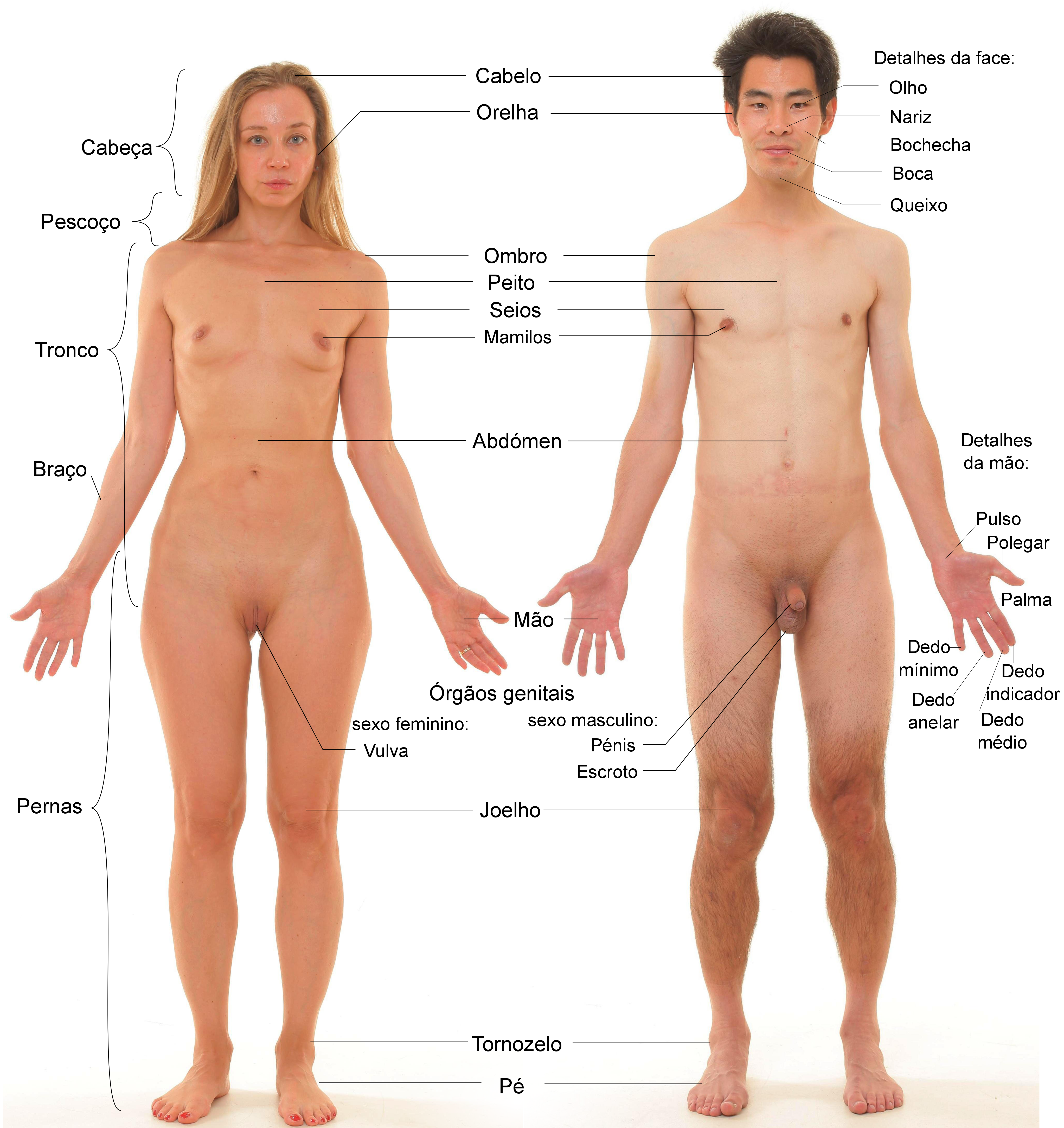 Naked female and male human body with labels.